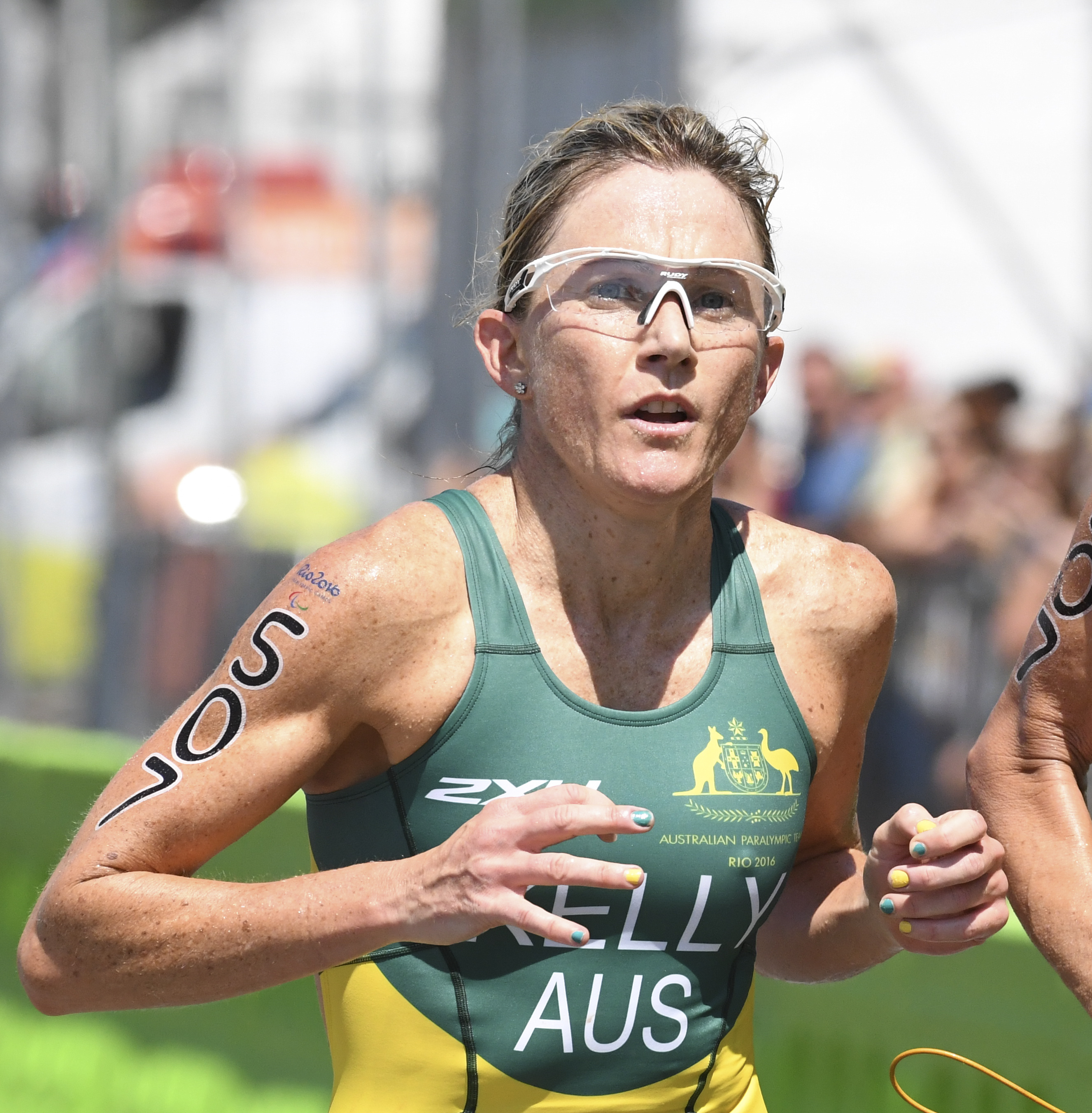 Katie Kelly - Rio de Janeiro - class PT4, PT2 e PT5, in Copacabana. category PT5. (Tânia Rêgo/Agência Brasil)